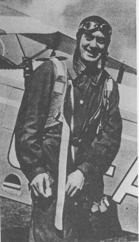 František Novák – second place in the international championship in aerobatics in Paris